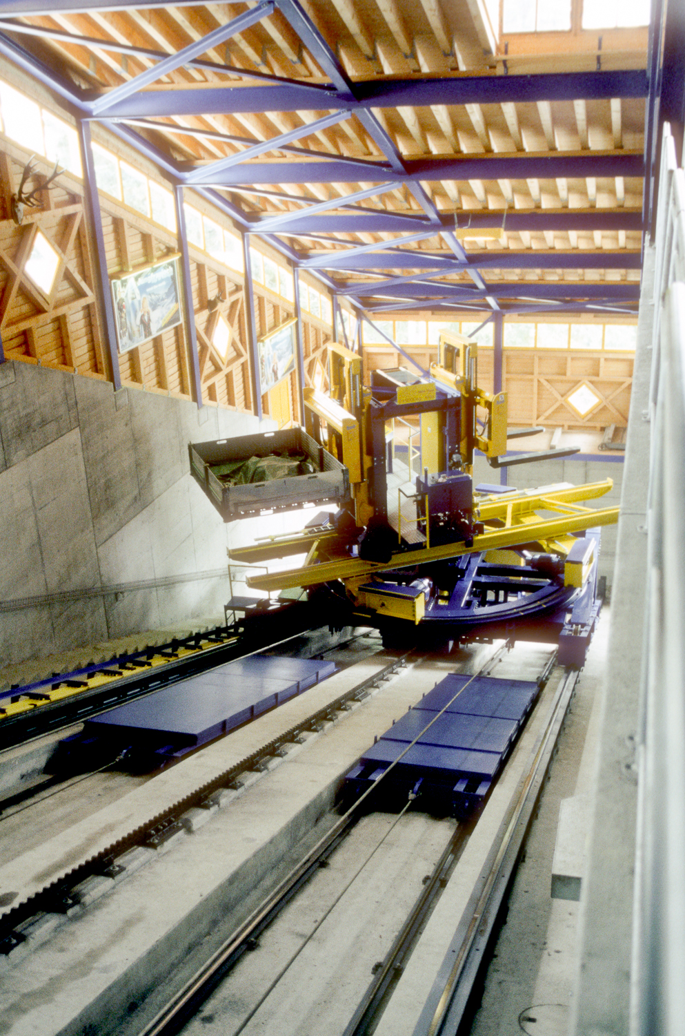 This machinery was built to transfer the freight and luggage from BLM funicular railway to the adhesion railway at Grütschalp Station. It is still used to transfer freight and luggage from the cableway which replaced the funicular. This picture was taken around 2001.